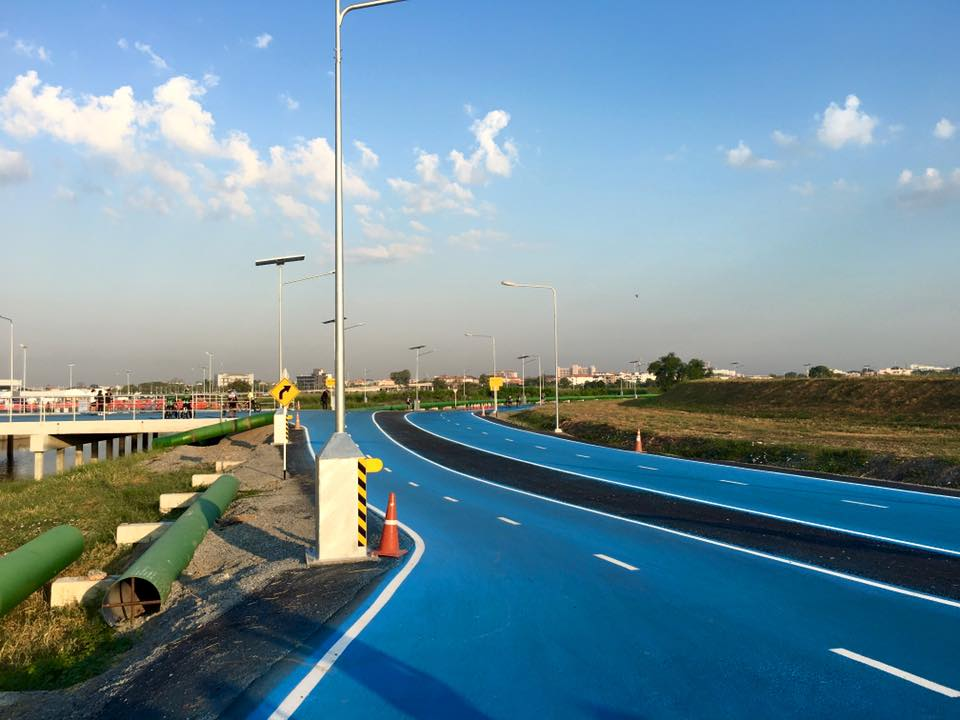 Sky Lane at Suvarnabhumi Airport, Samut Prakan, Thailand.